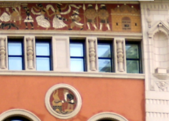 Detail of Birks Building, 276 Portage Ave, Winnipeg